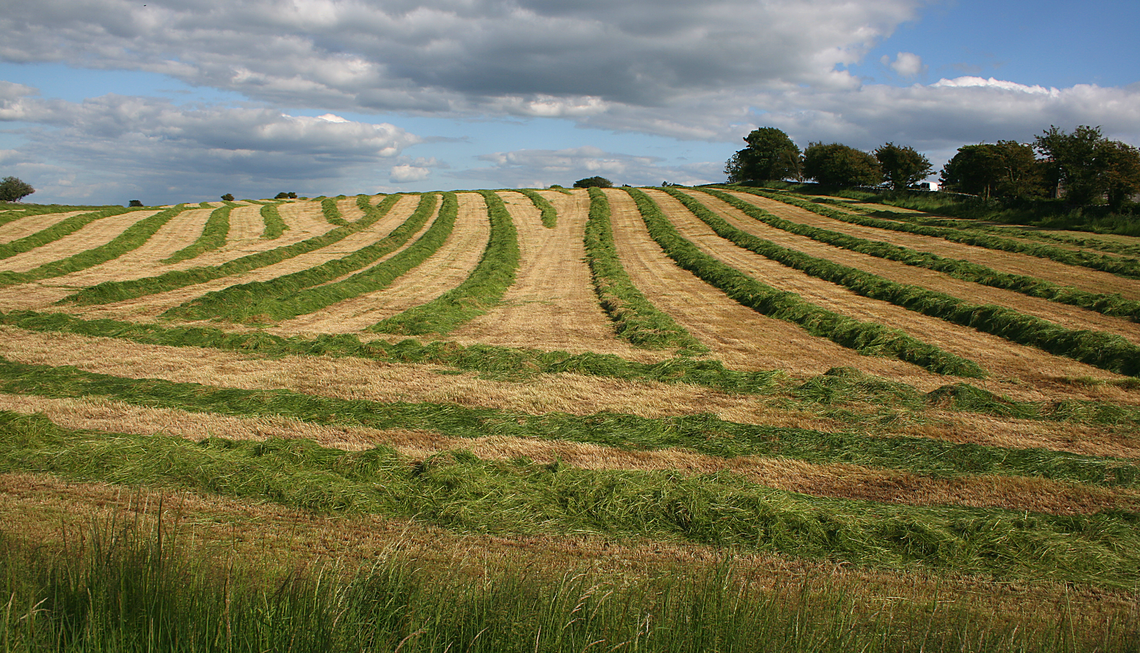 Windrows on a freshly-cut hay (silage) field, Maree, Galway, Ireland